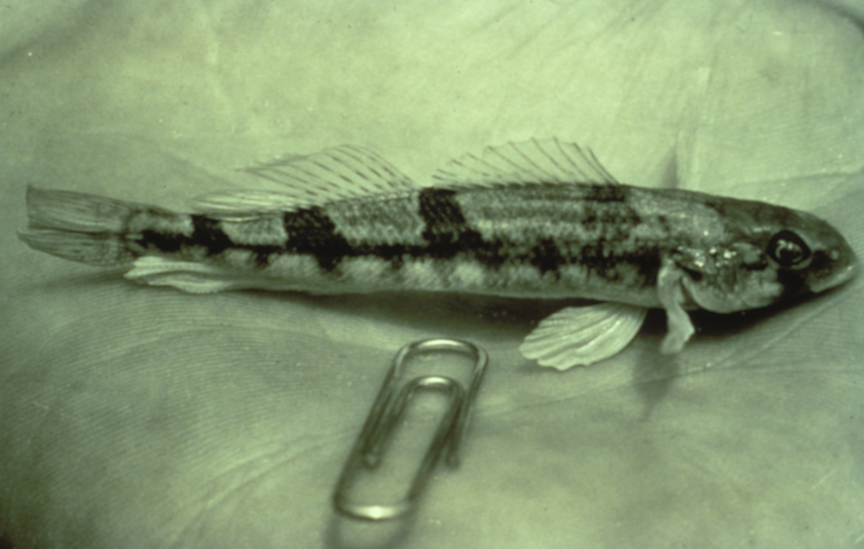 Title: Snail Darter Controversy Alternative Title: Percina tanasi controversy Creator: USFWS Photo Source: WO-2553 Publisher: U.S. Fish and Wildlife Service Contributor: DIVISION OF PUBLIC AFFAIRS Language: EN - ENGLISH Rights: (public domain) Audience: (general) Subject: endangered fishes fish darters Downloaded from